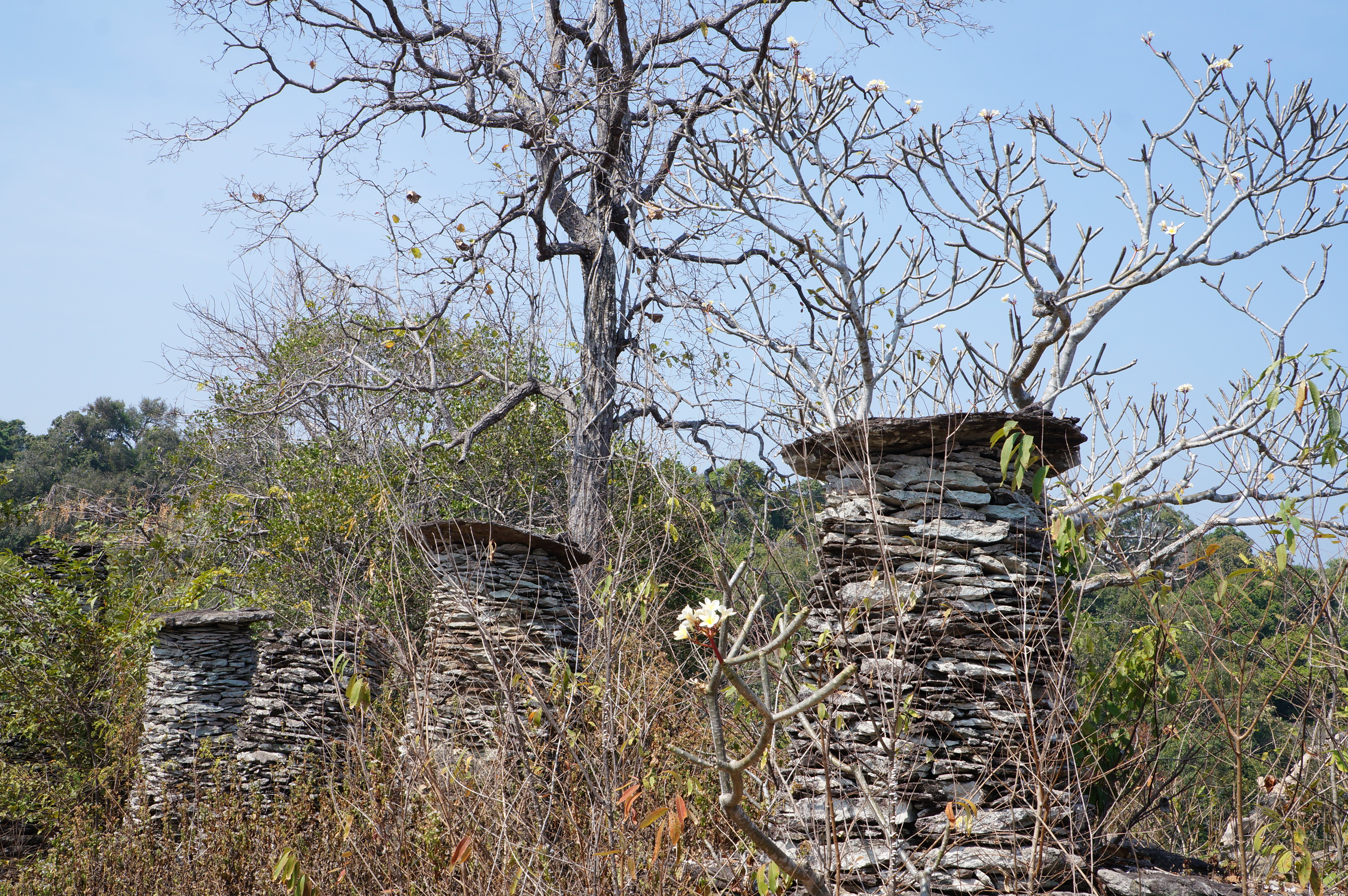 The Sanctuary of Phou Asa Mountain, one of the archaeological sites of Laos, whose mystery of its origins remains intact, dates back to Xe-XI century. The Lao consider it to be the ancient fortress of a king of the Attapeu (Ban Khiet Ngong). Laos.